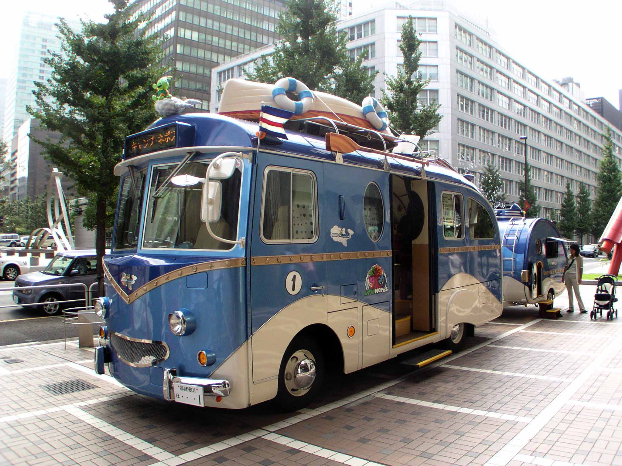 Nepospiros Bus, caravan car of Camp Nepos, produces by Oriental Land. Model: Hino Ranger Customize: Tokyo Special Coach License plate: CBN801 HO0801 Place: TEIPARK (Communications Museum), Otemachi, Chiyoda Ward, Tokyo Japan